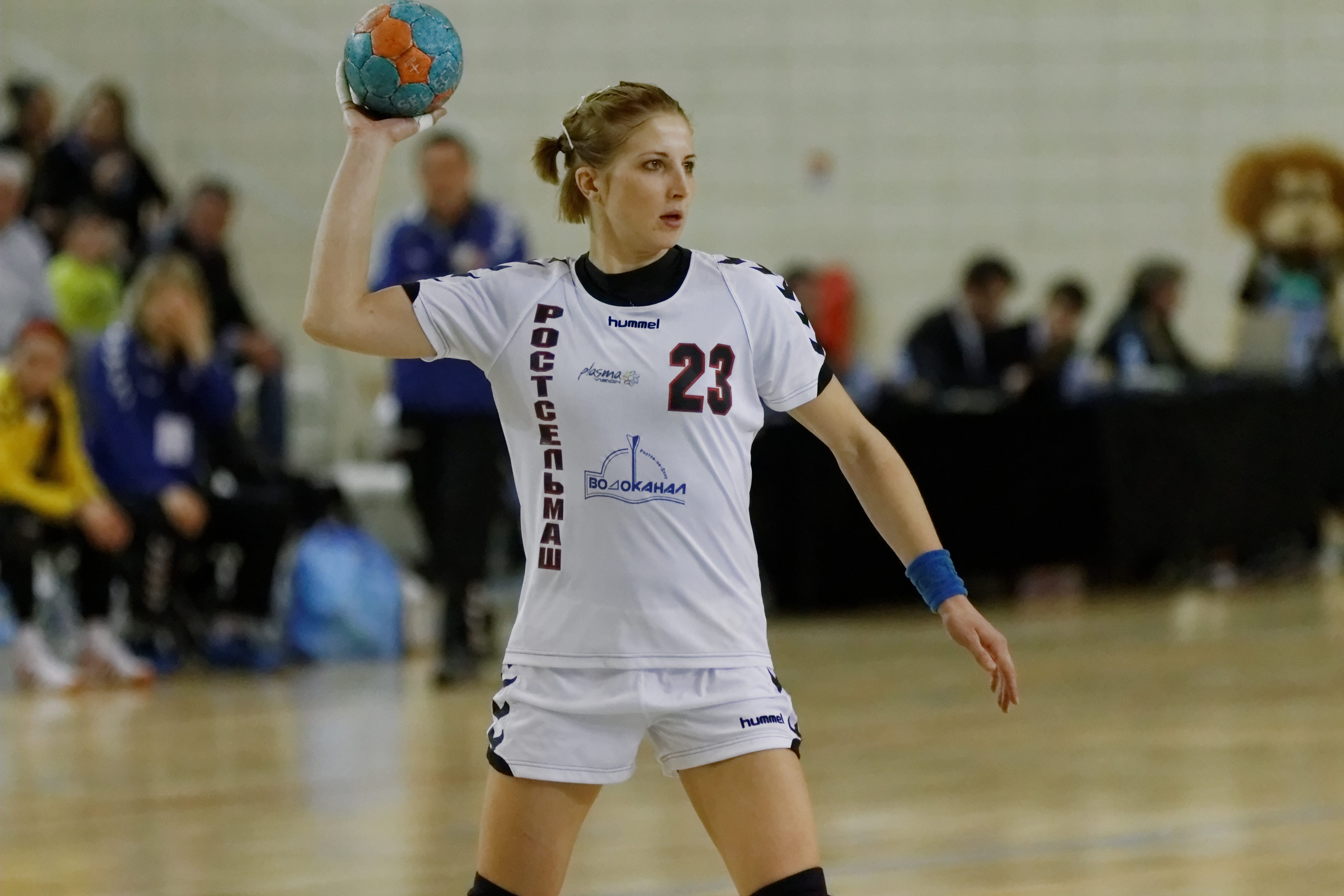 Semi-final EHF Cup Winners' Cup. Issy Paris Hand - Rostov-Don, 5 April 2013. Regina Shymkute.